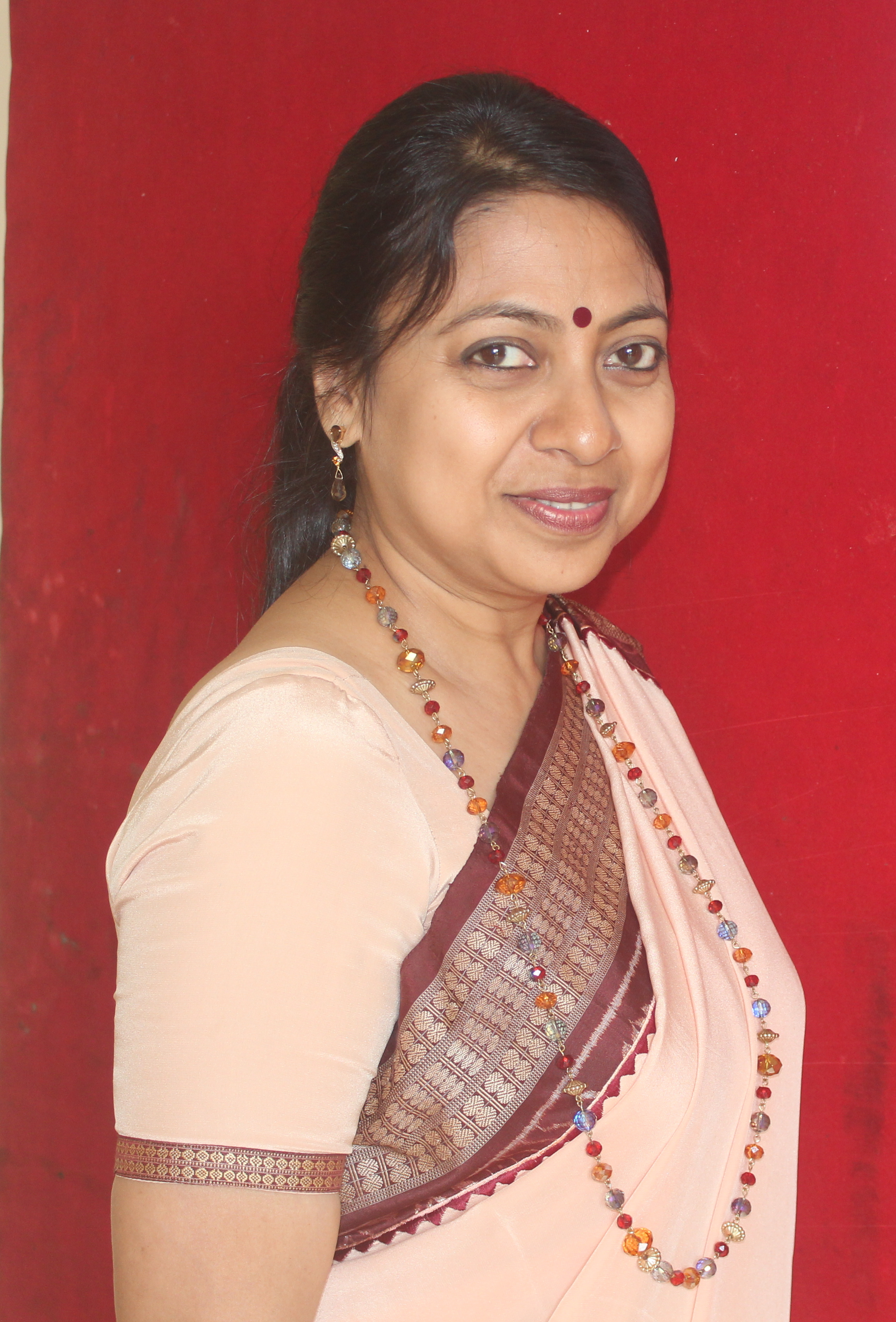 Photo of Paramita Satpathy